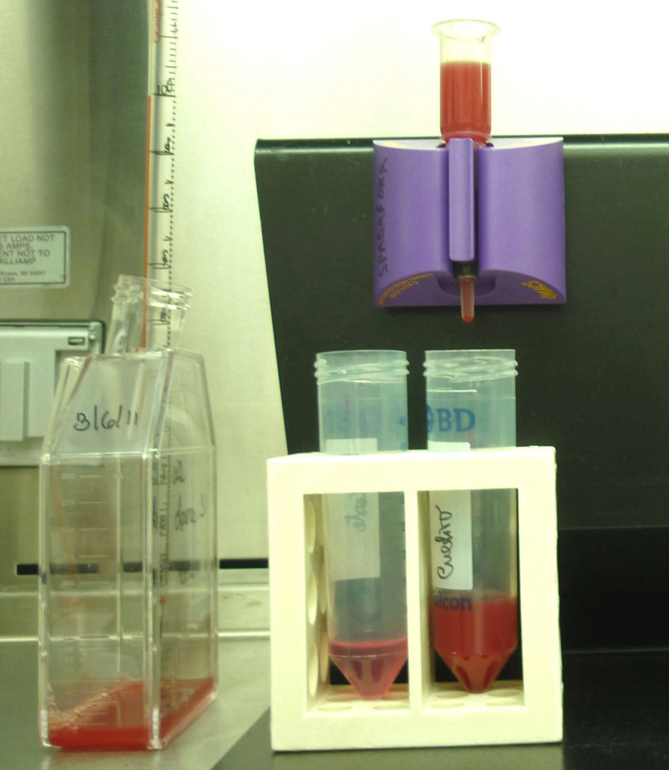 Magnetic collection of Plasmodium falciparum infected Red Blood Cells